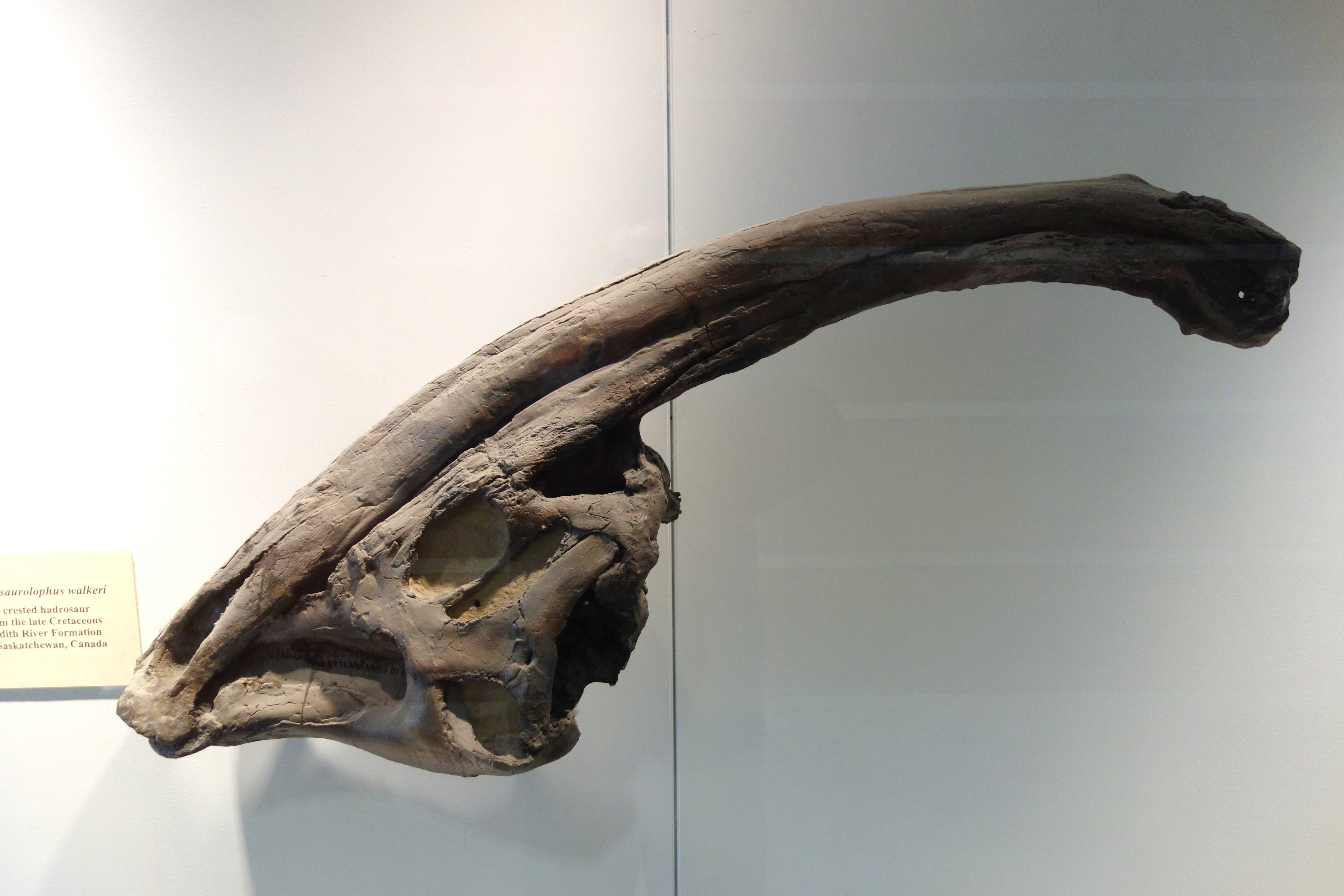 Specimen displayed by the University of California Museum of Paleontology, Berkeley, California, USA. Photography was permitted without restriction.